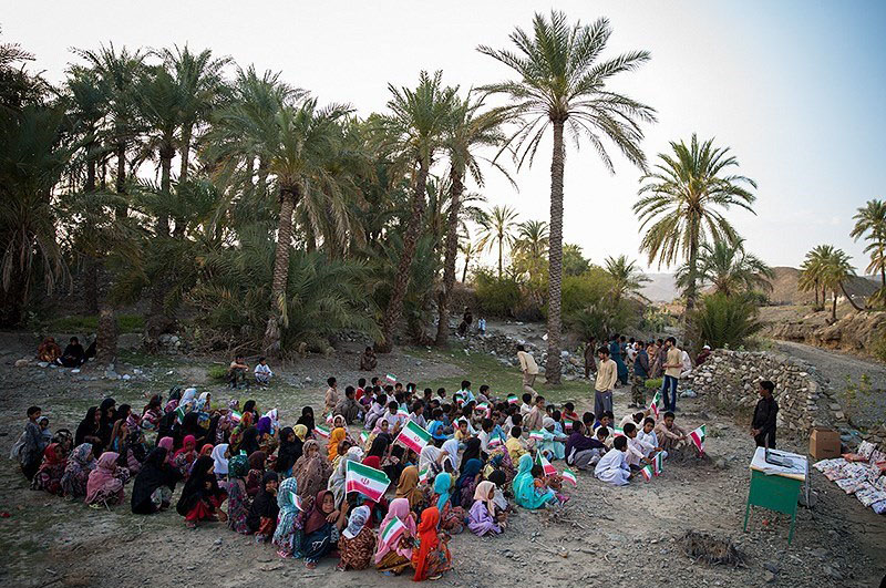 First worship celebration of Baloch girls from Nik Shahr County